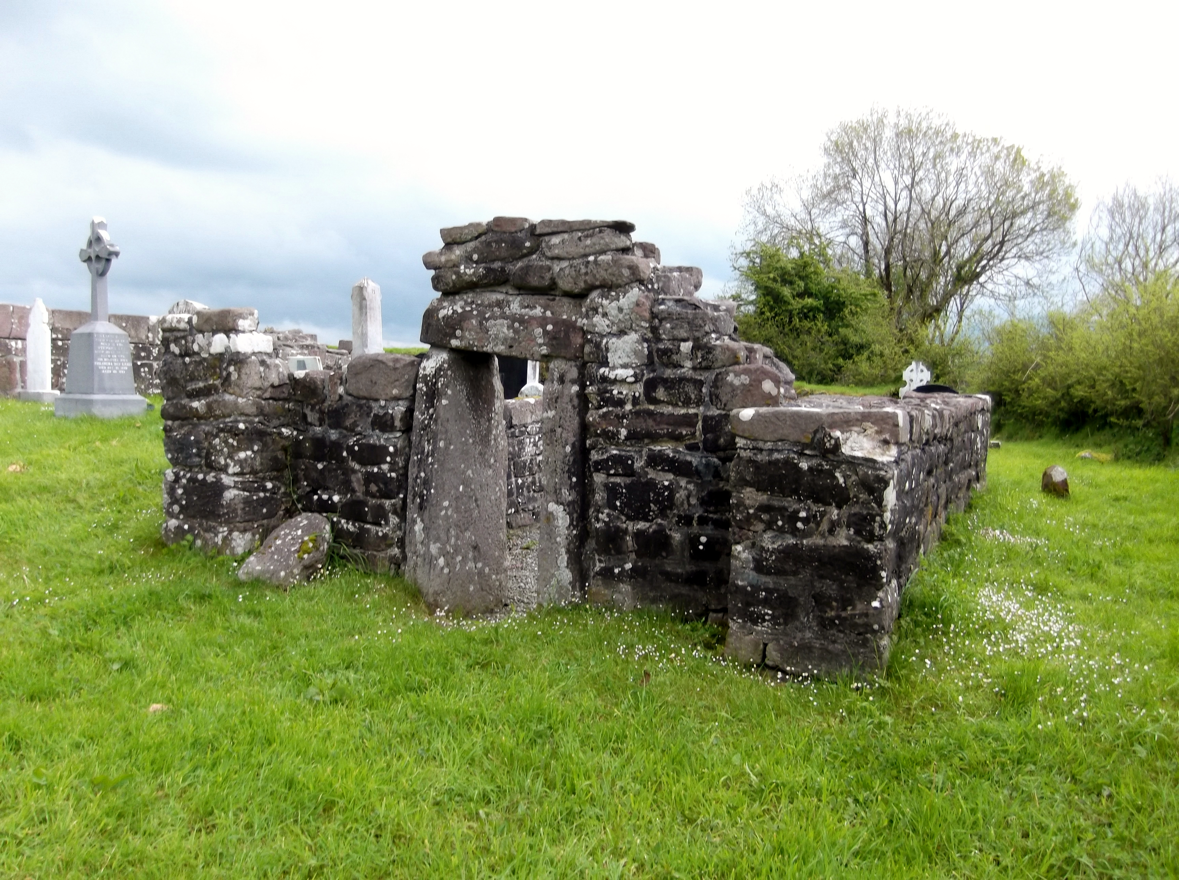 Photograph of the remains of Labbamolaga Monastery, Co. Cork, Ireland